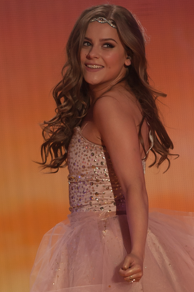 Eurovision Song Contest Vienna 2015: Maria Olafs